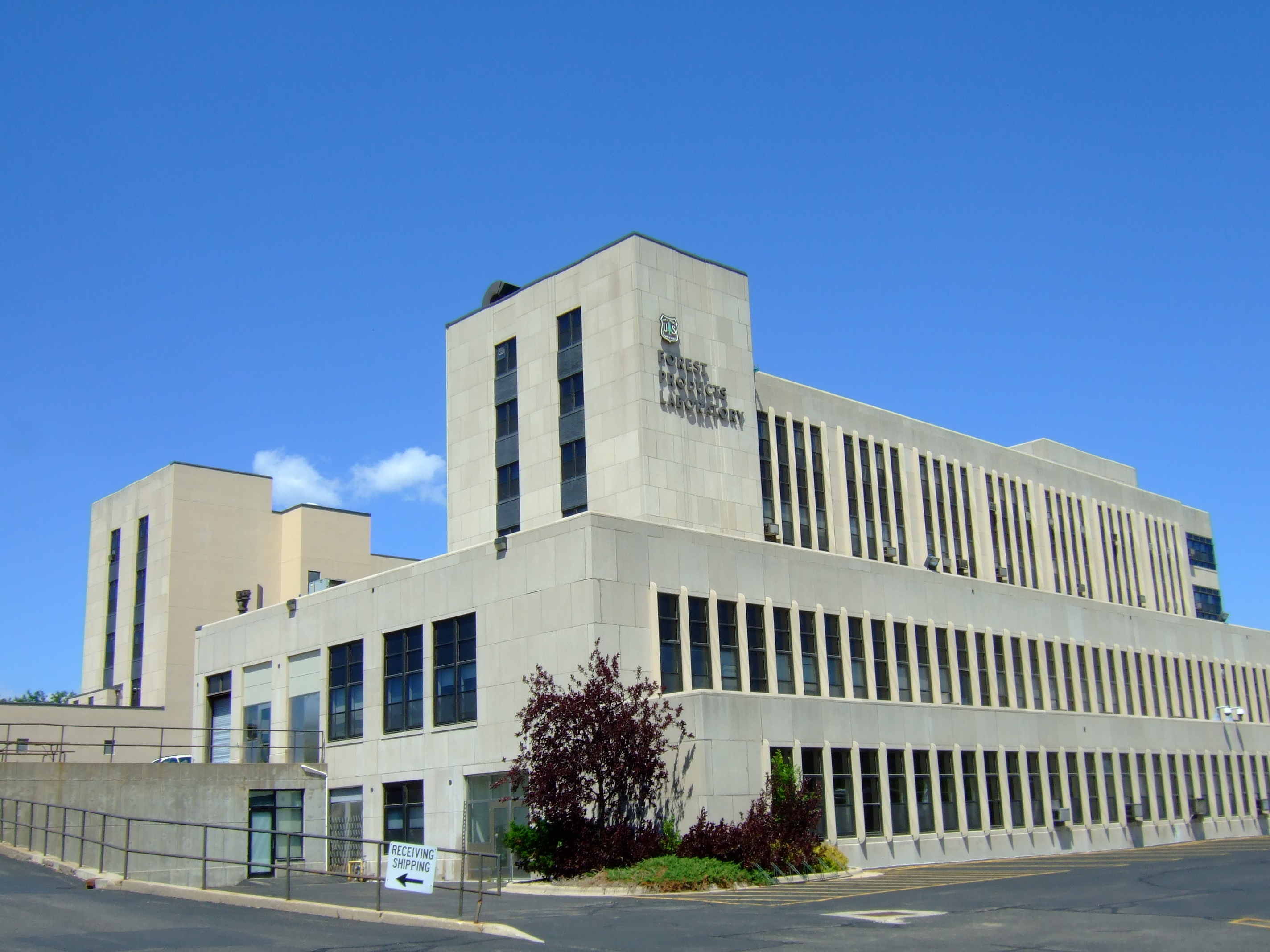 The Forest Products Laboratory at 1 Gifford Pinchot Drive in Madison, Wisconsin, was designed in the Art Deco or International Art Moderne style by C. B. Fritz of the Chicago firm Holabird & Root. Built in 1932, it replaced the Old Forest Products Laboratory located at 1509 University Avenue. The Old Forest Products Lab was added to the National Register of Historic Places in 1985, and the new Forest Products Lab was added in 1995.